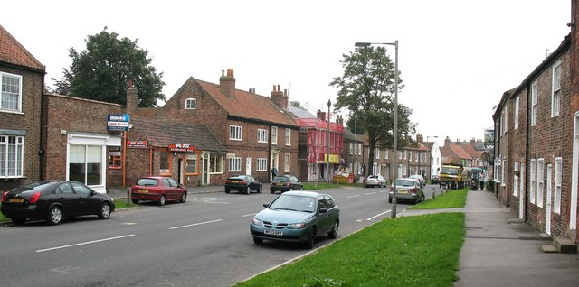 Main Street, Fulford. This must once have been a quiet village street, but in the 21st century it is a busy thoroughfare bringing the A19 into York from the south. Most of the buildings are of a 'village' style, rather than suburban.